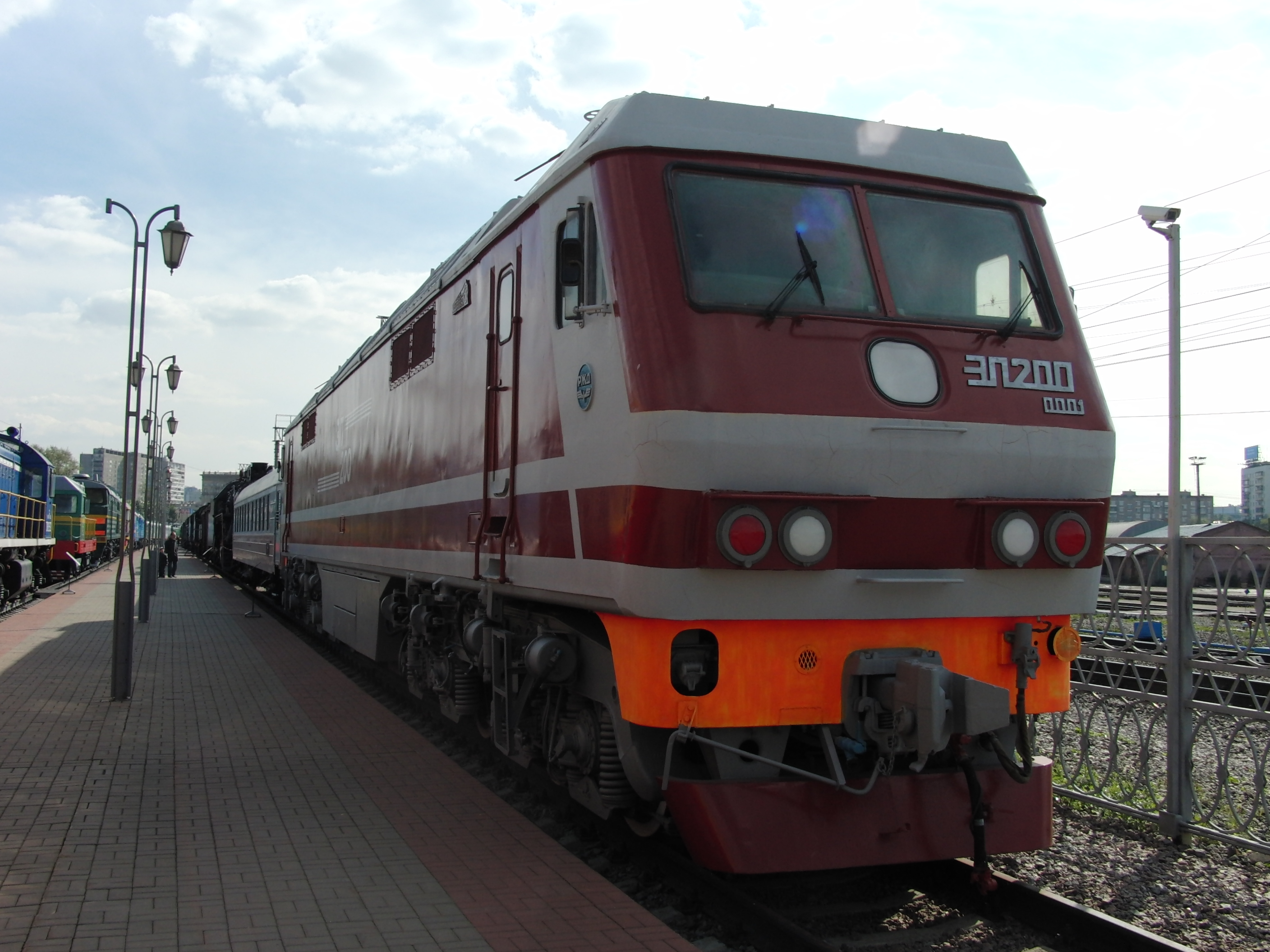 EP200 (ЭП200) 001 high-speed electric locomotive